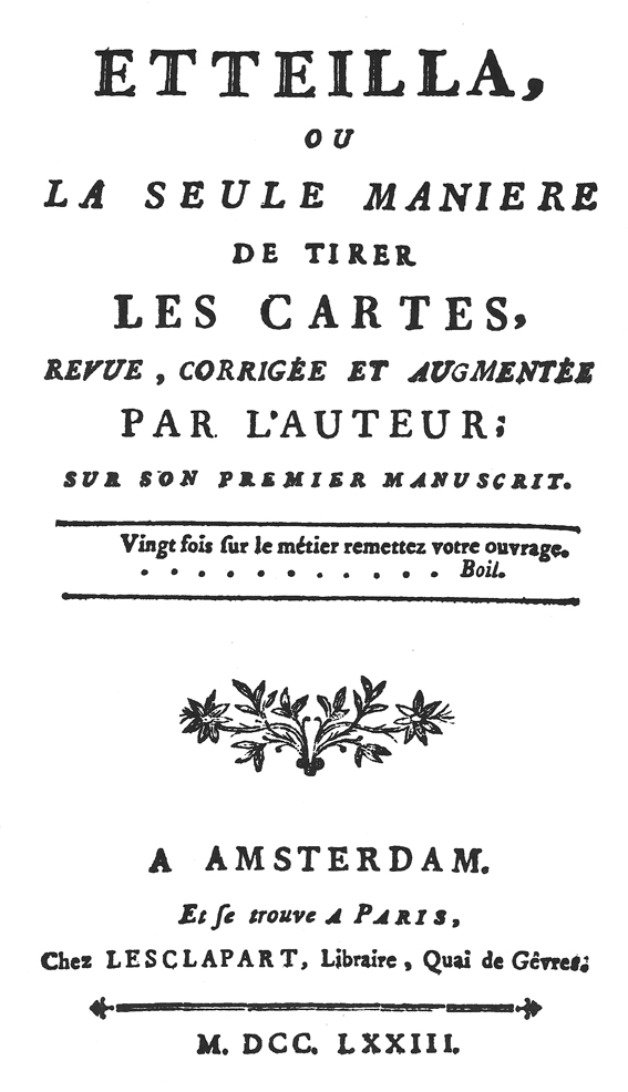 Title page from Etteilla (Jean-Baptiste Alliette), Etteilla, ou la sole maniere de tirer les cartes, revue, corrigée et augmentée sur son premier manuscrit A Amsterdam 1773